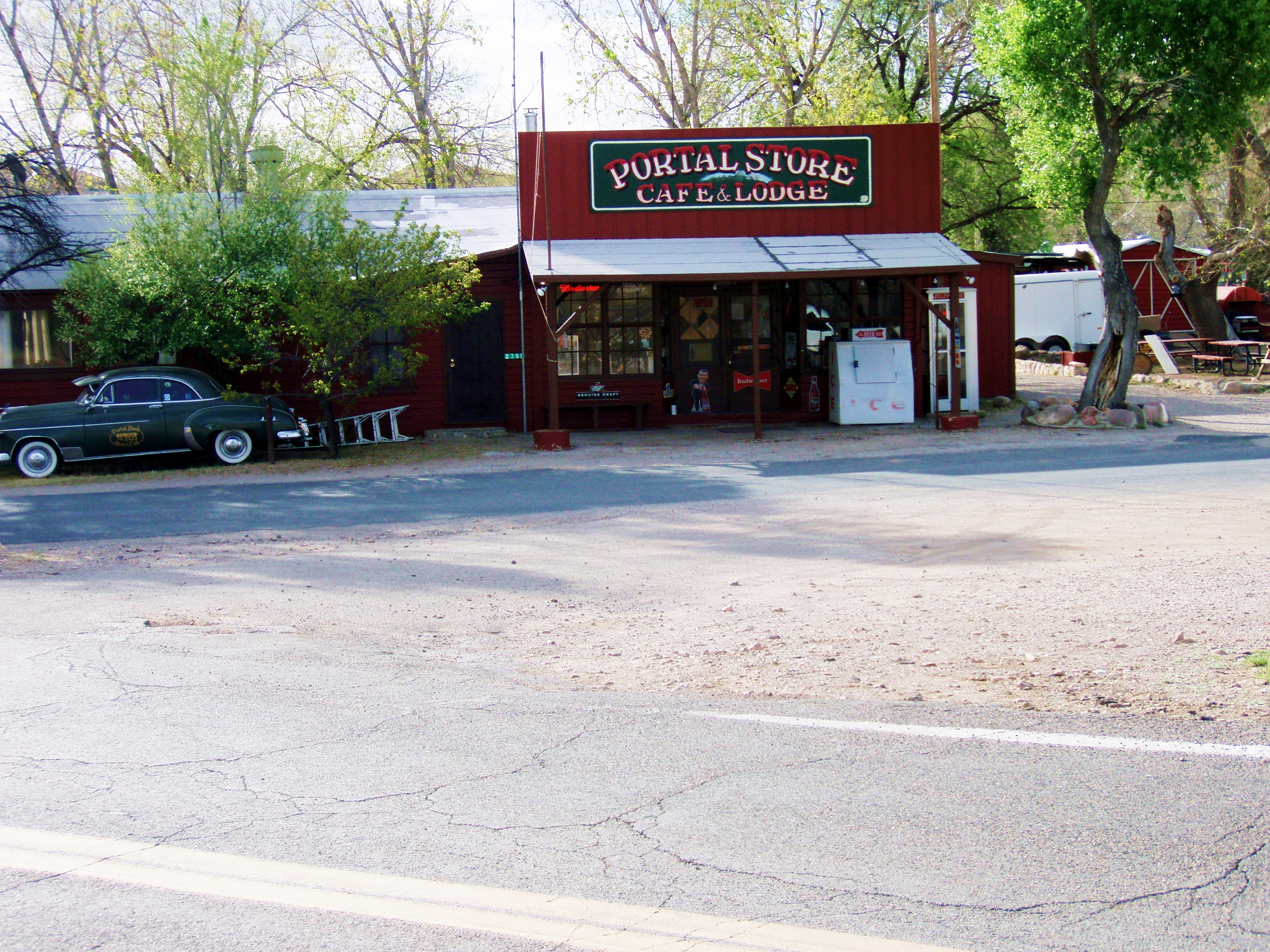 A view of the Portal Peak Store in Portal Arizona.